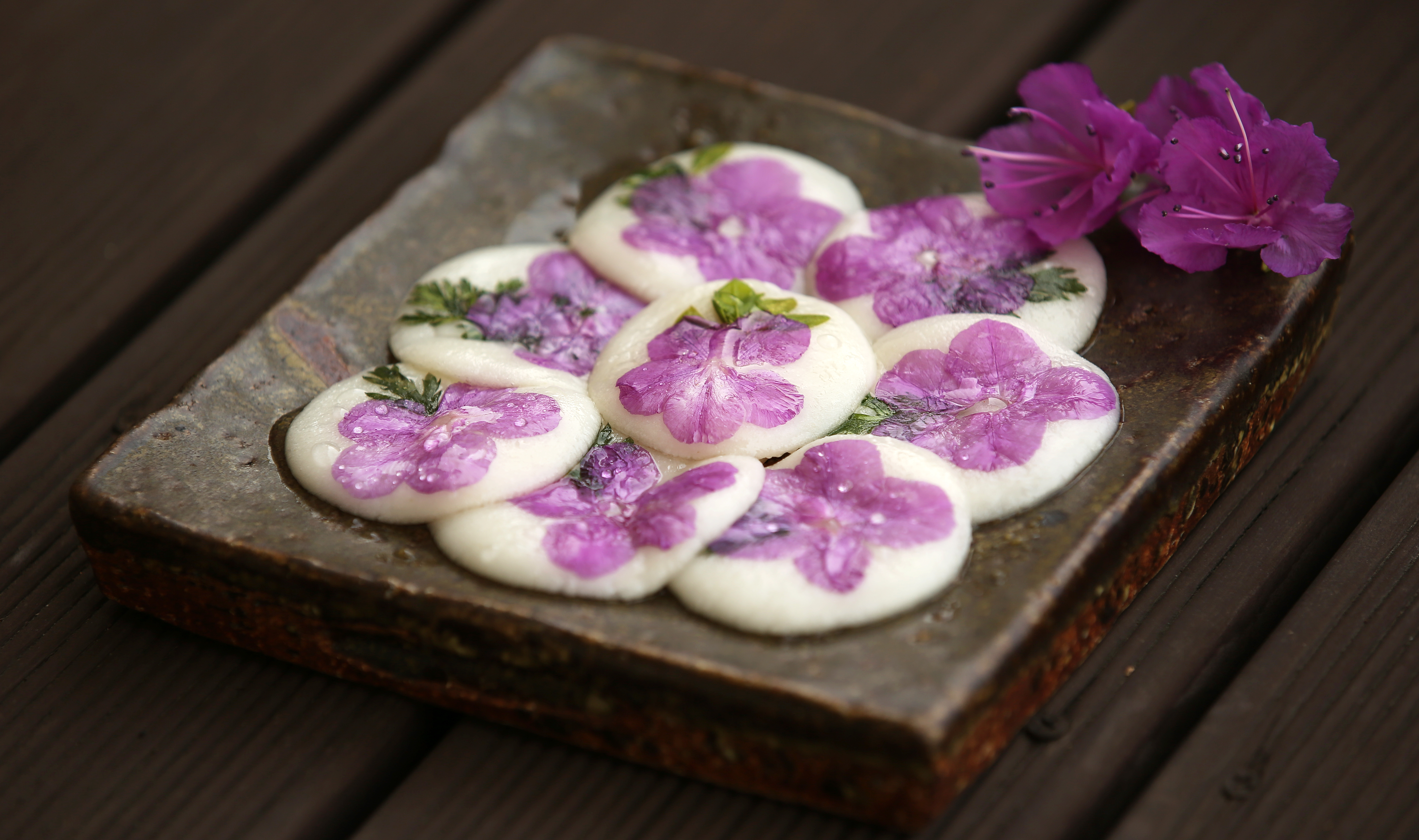 Cooking for Hwajeon(Flower Rice Cake)